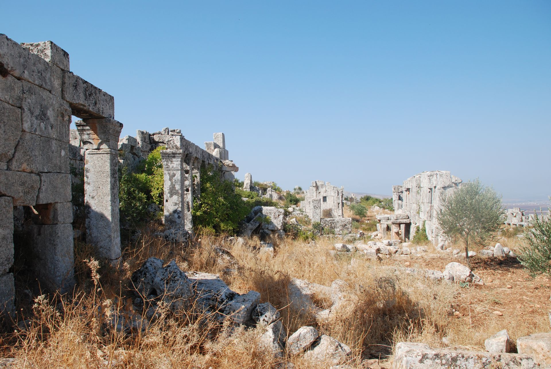 Baqirha, dead city in Syria. Villas in center